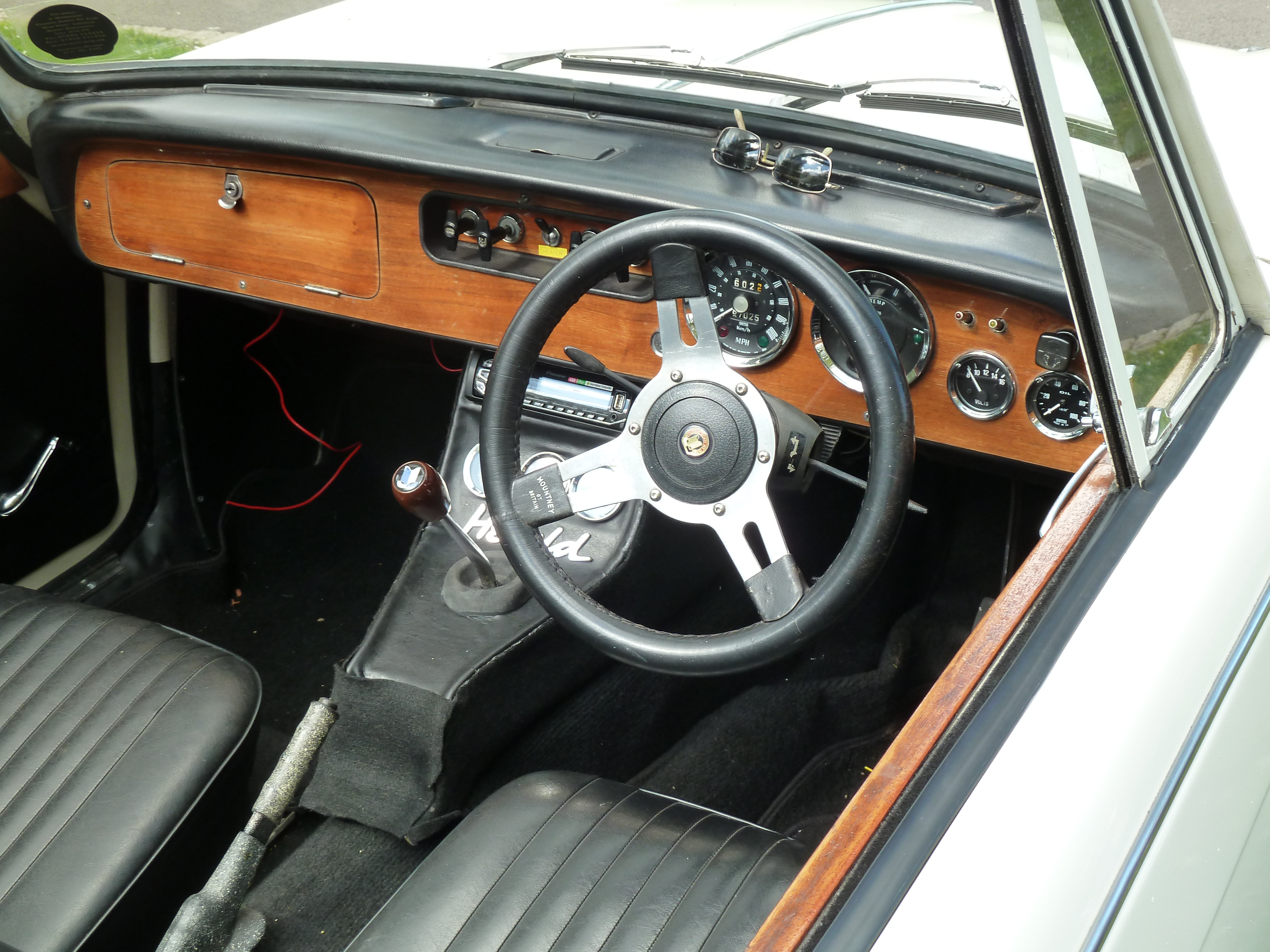 Wallace Park, Lisburn, Co. Antrim, Ireland Triumph car event May 2015